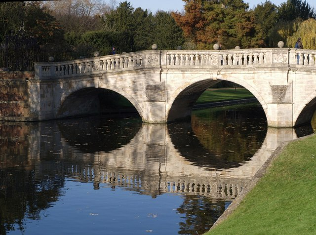 Clare College Bridge Across the River Cam. Completed in 1640, this was the first classical bridge built in Cambridge. Seen from the edge of the Great Lawn.